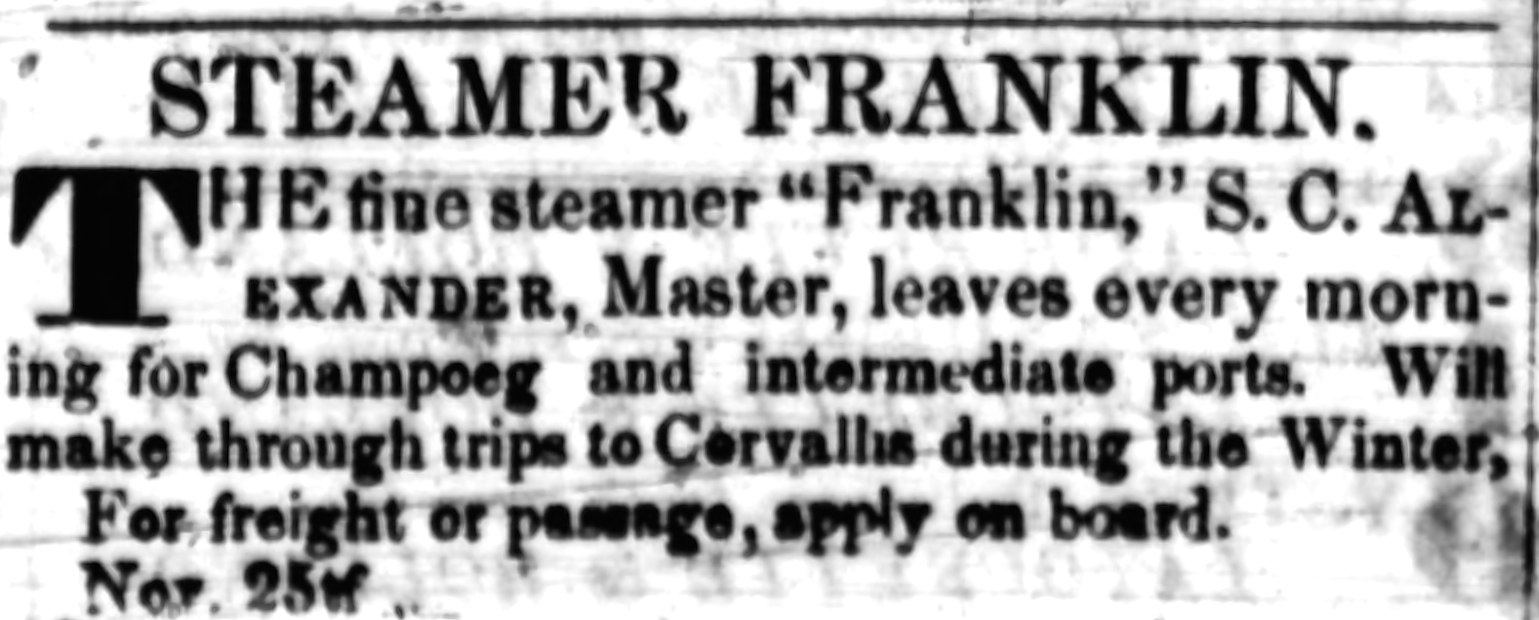 Advertisement for sidewheeler Franklin published in the Oregon Spectator